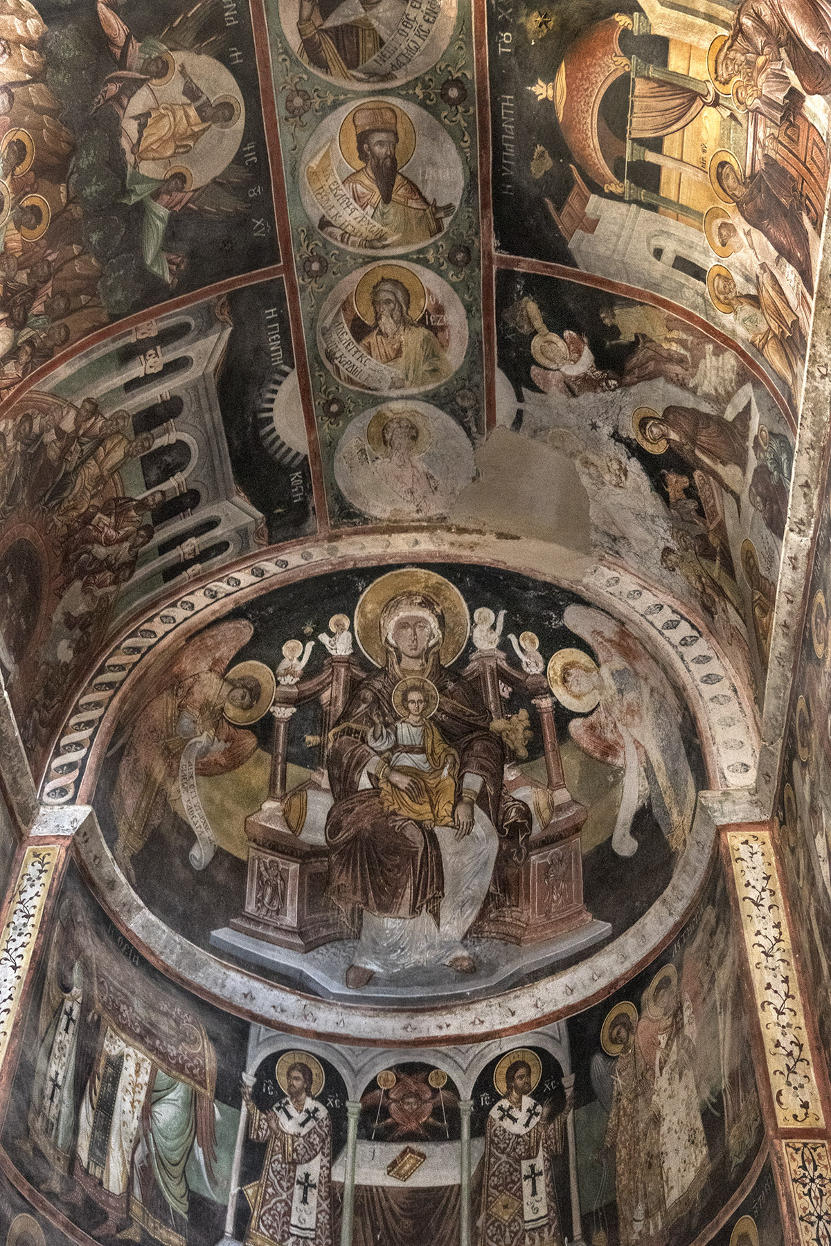 Kaisariani Monastery Athens, polychrome fresco on ceiling of church, December 13, 2019